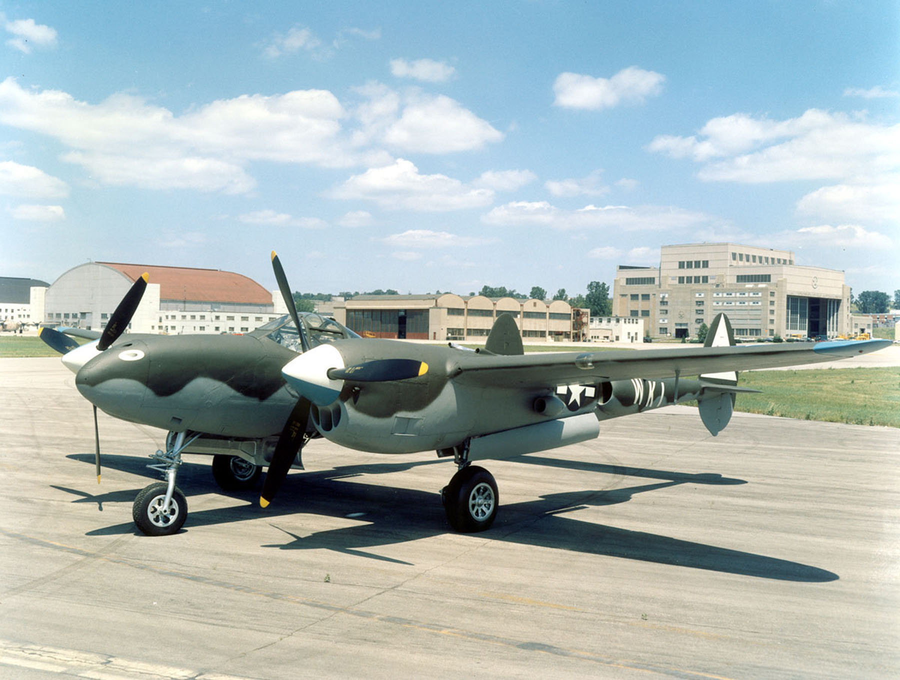 Lockheed P-38L, DAYTON, Ohio -- Lockheed P-38L Lightning at the National Museum of the United States Air Force. (U.S. Air Force photo)